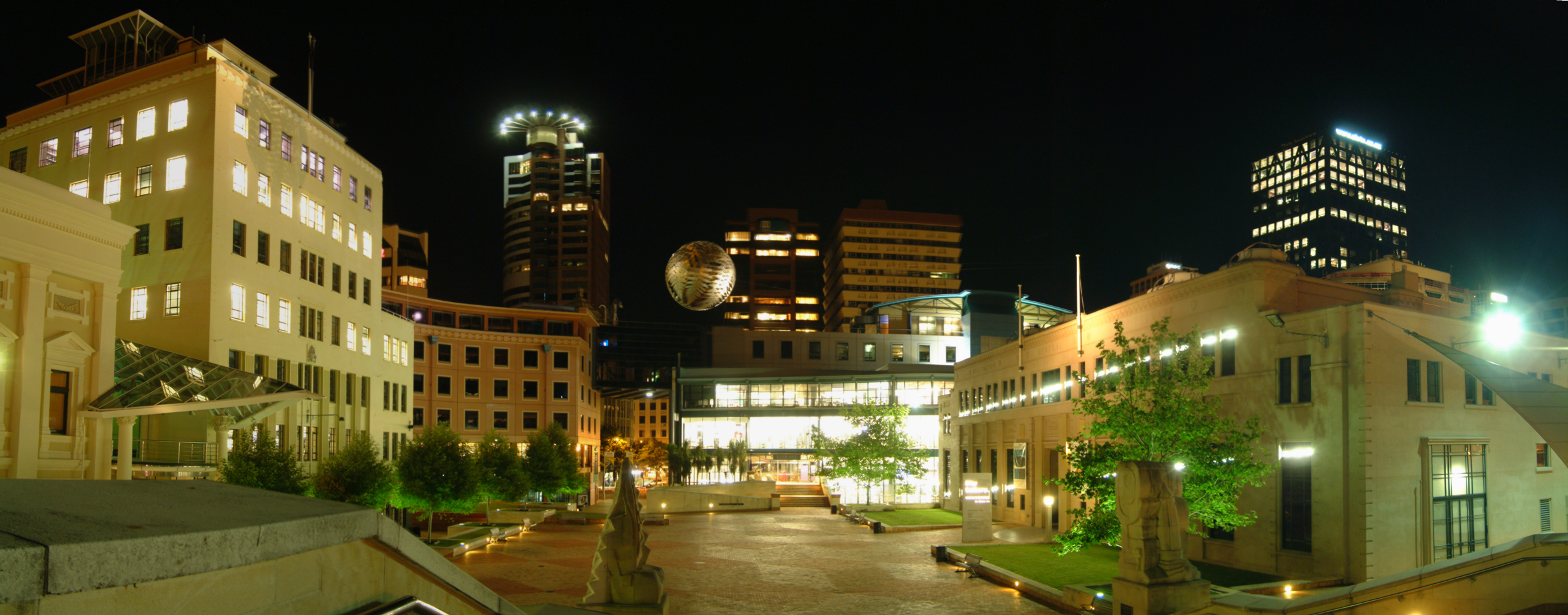 Civic Square, Wellington, New Zealand